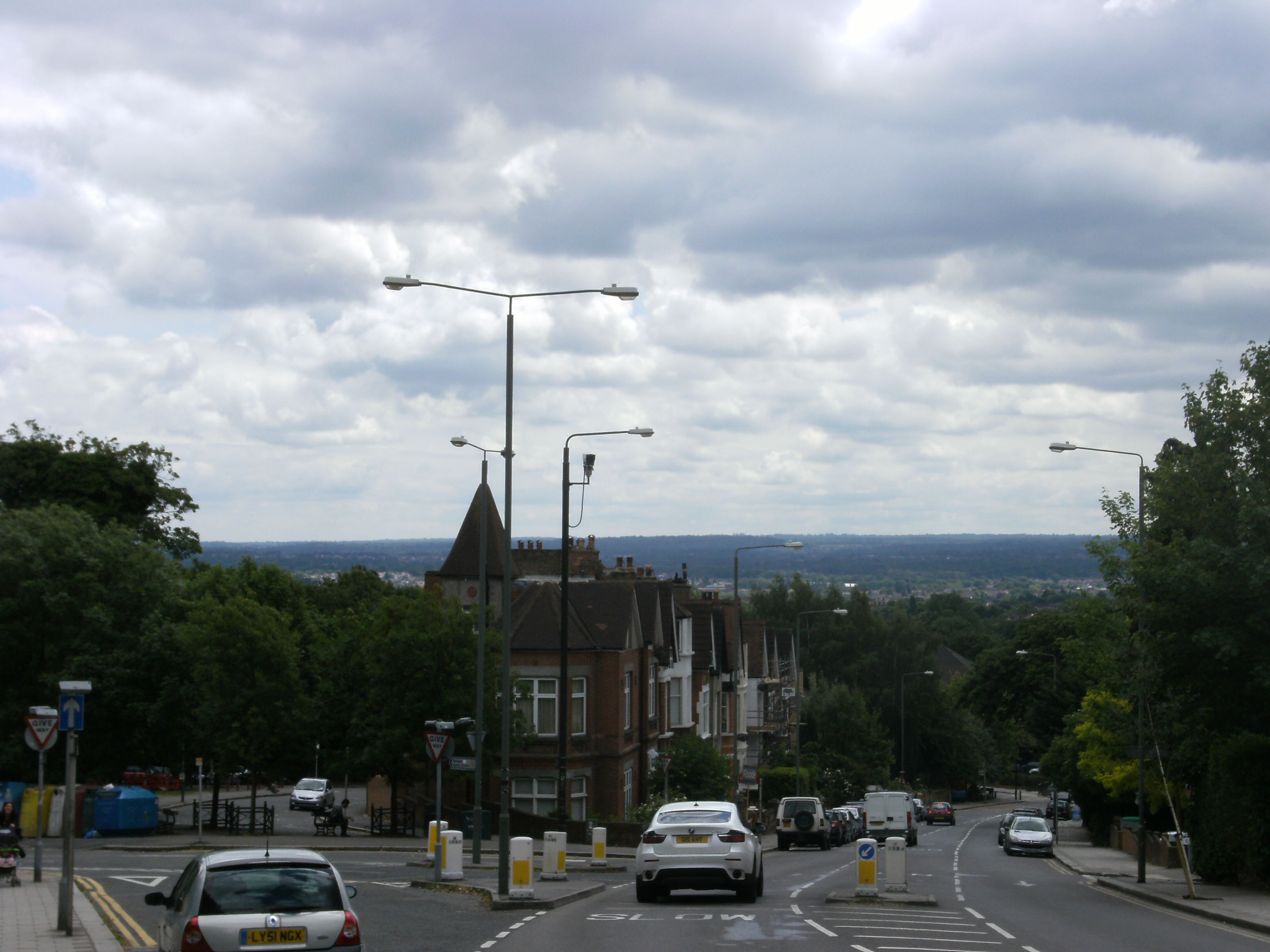 Anerley Hill, Crystal Palace, London SE19.